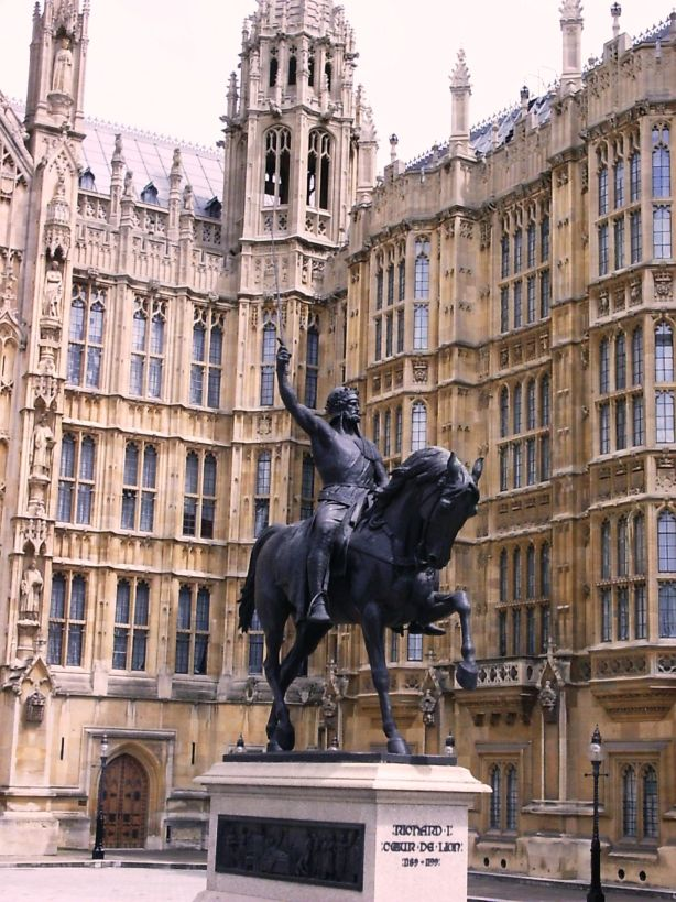 Richard Coeur de Lion (statue)